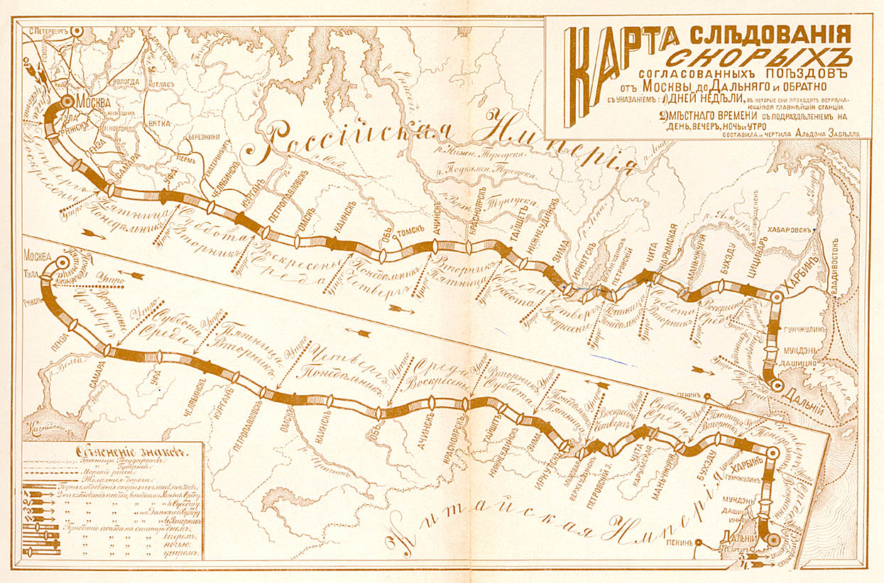 Trans Siberian Railroad Route Map (1903), Moscow - Dal'ny